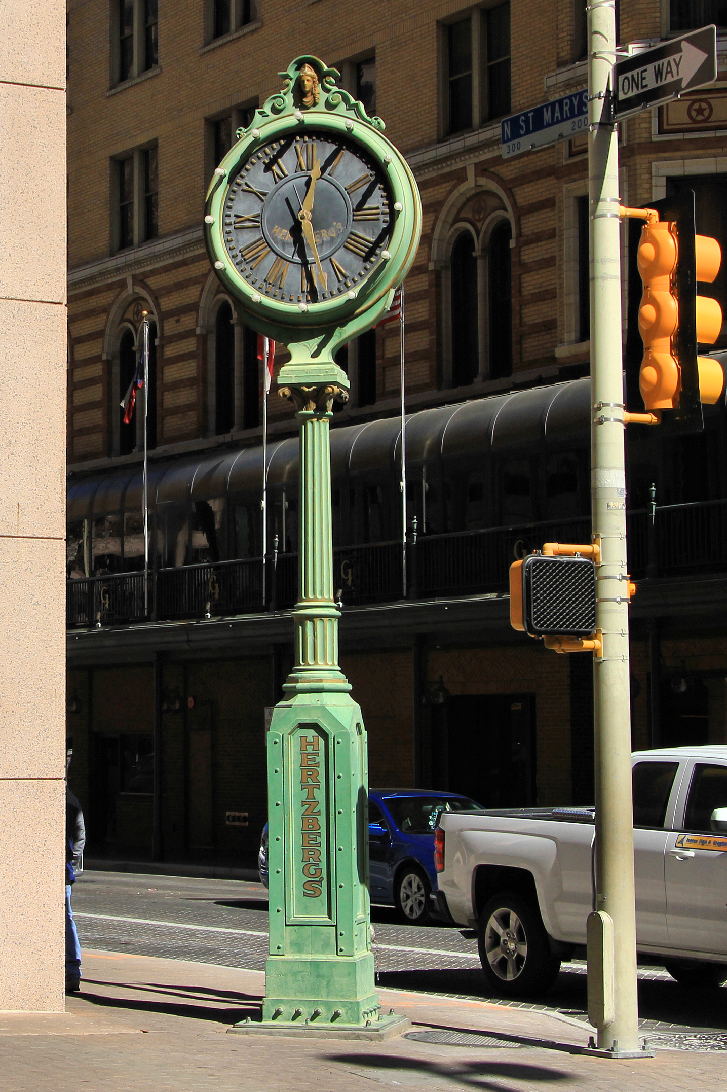 The Hertzberg Clock in San Antonio, Texas, United States, was installed in 1878.